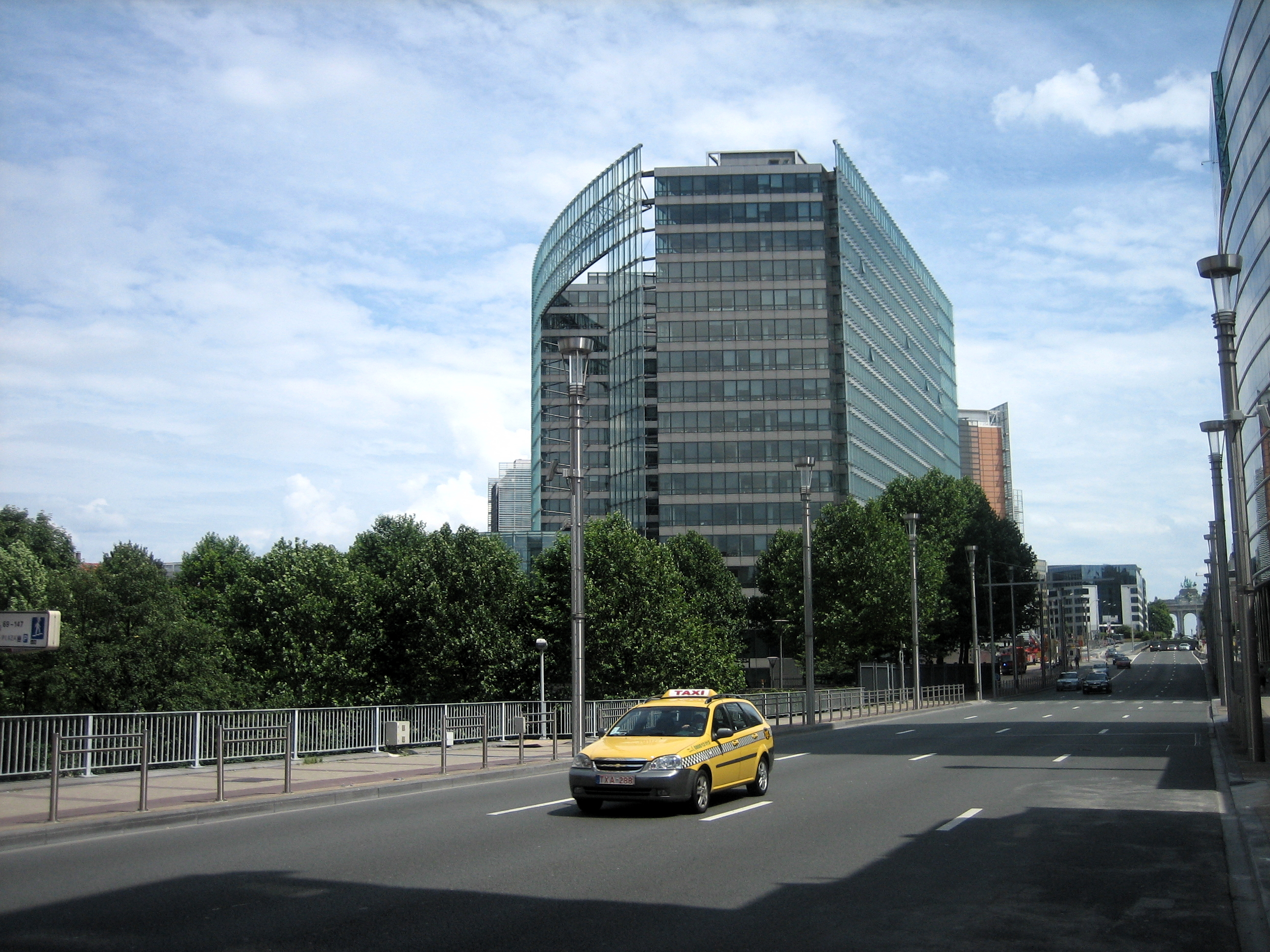 Charlemagne building, seen from across the Rue de la Loi. Maelbeek to the left, Berlaymont to the right. View is from the south west, looking north east.